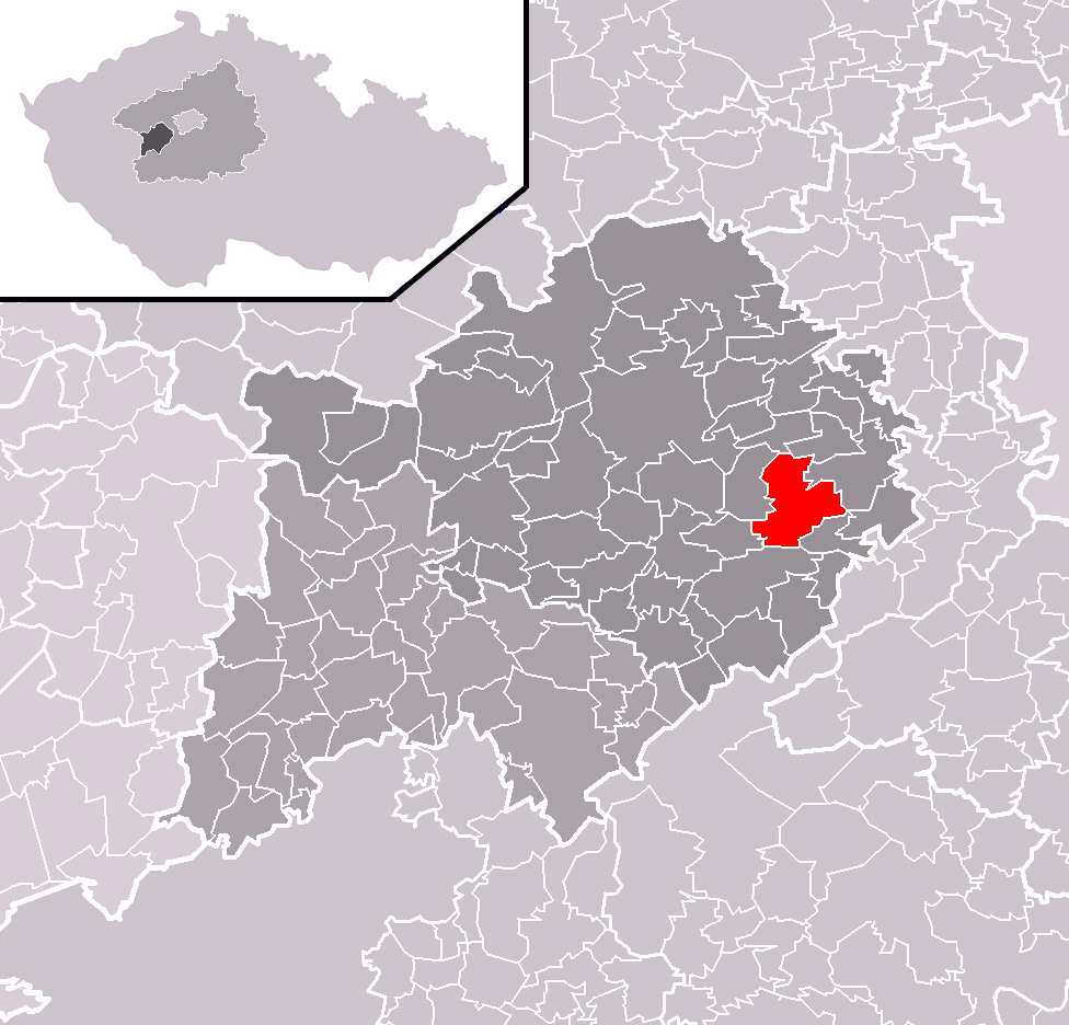 Location of Karlštejn municipality within Beroun District and administrative area of Beroun as a Municipality with Extended Competence.